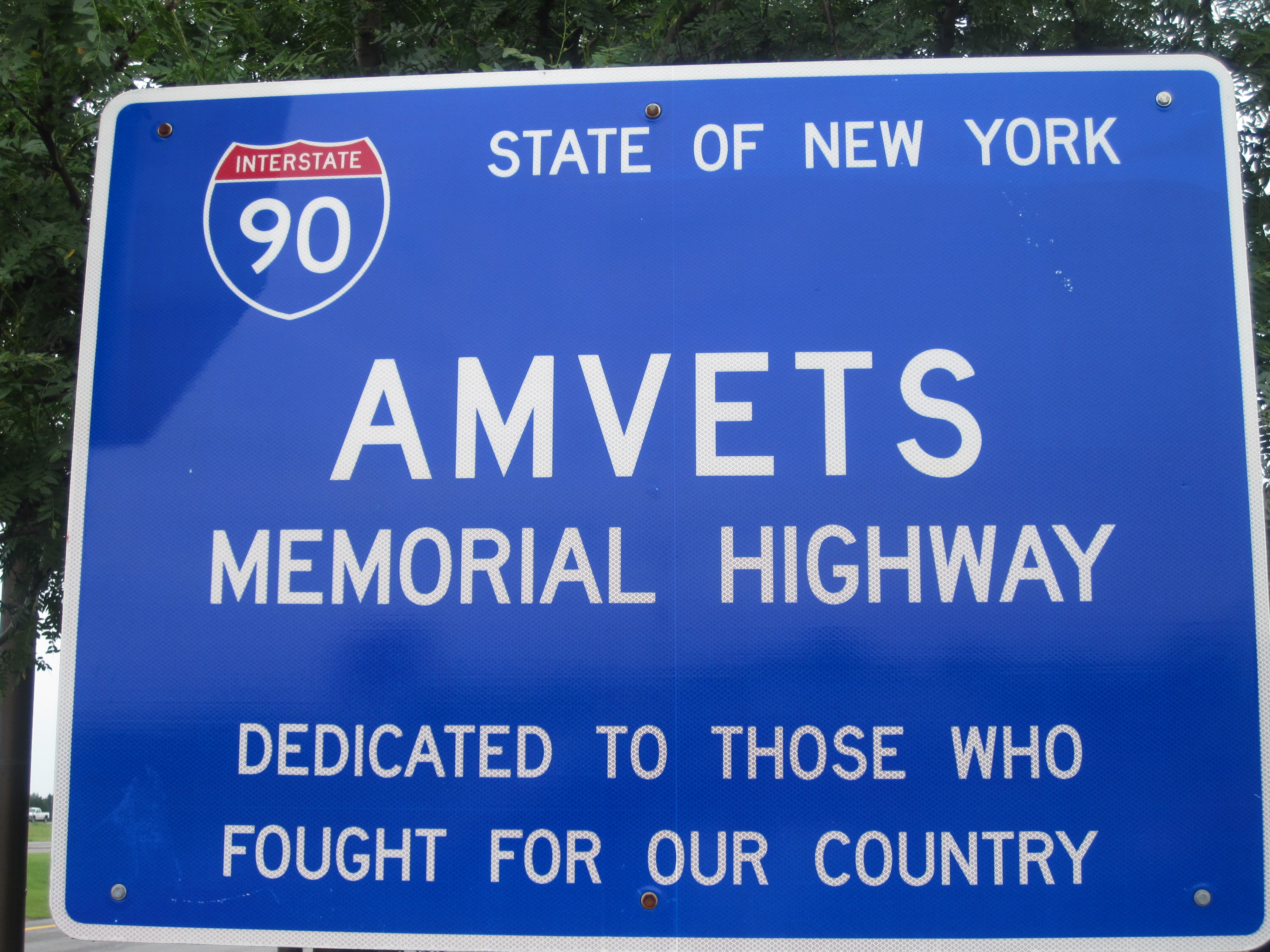 Interstate 90 as AmVets Highway west of Syracuse, NY